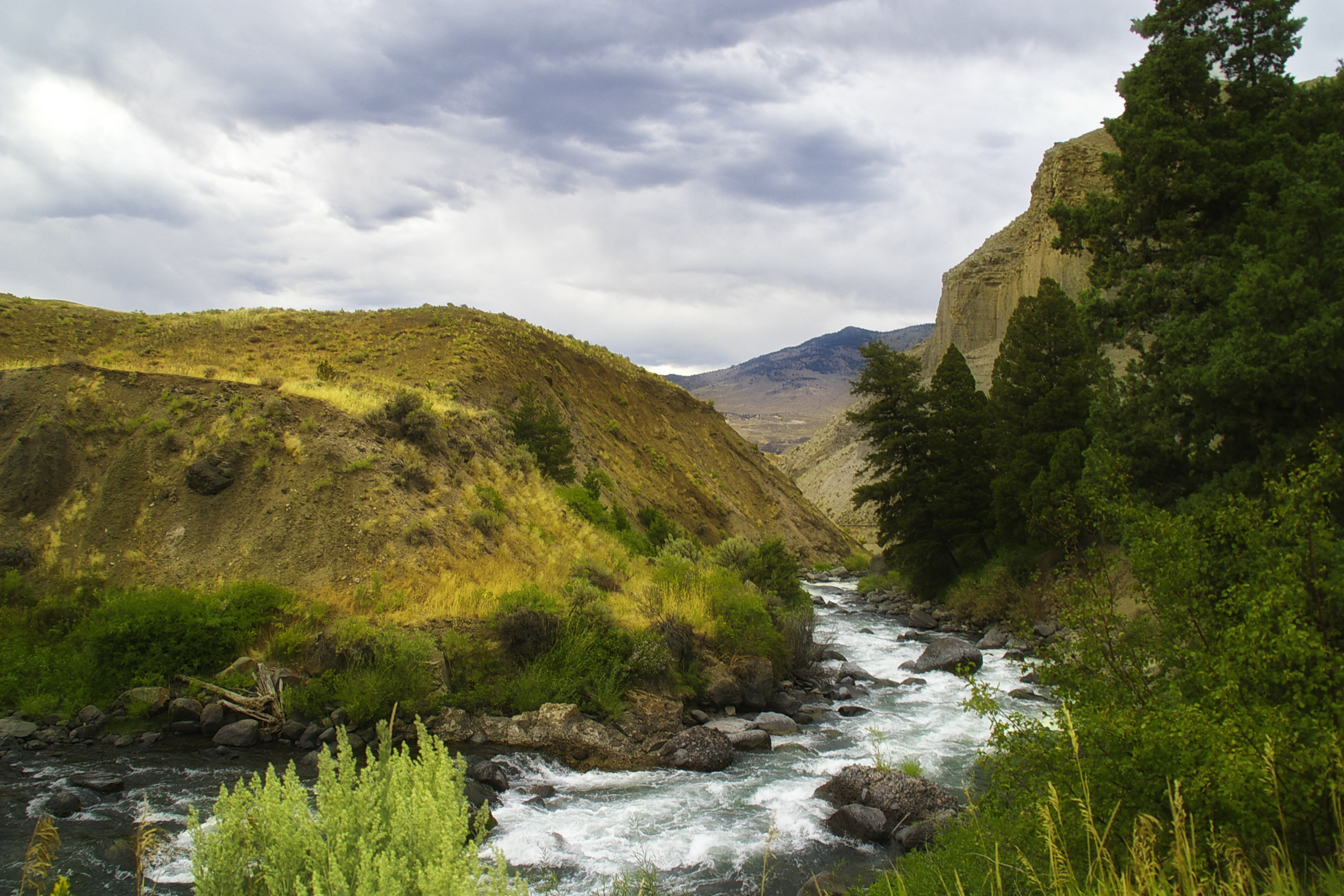 Yellowstone National Park, Wyoming